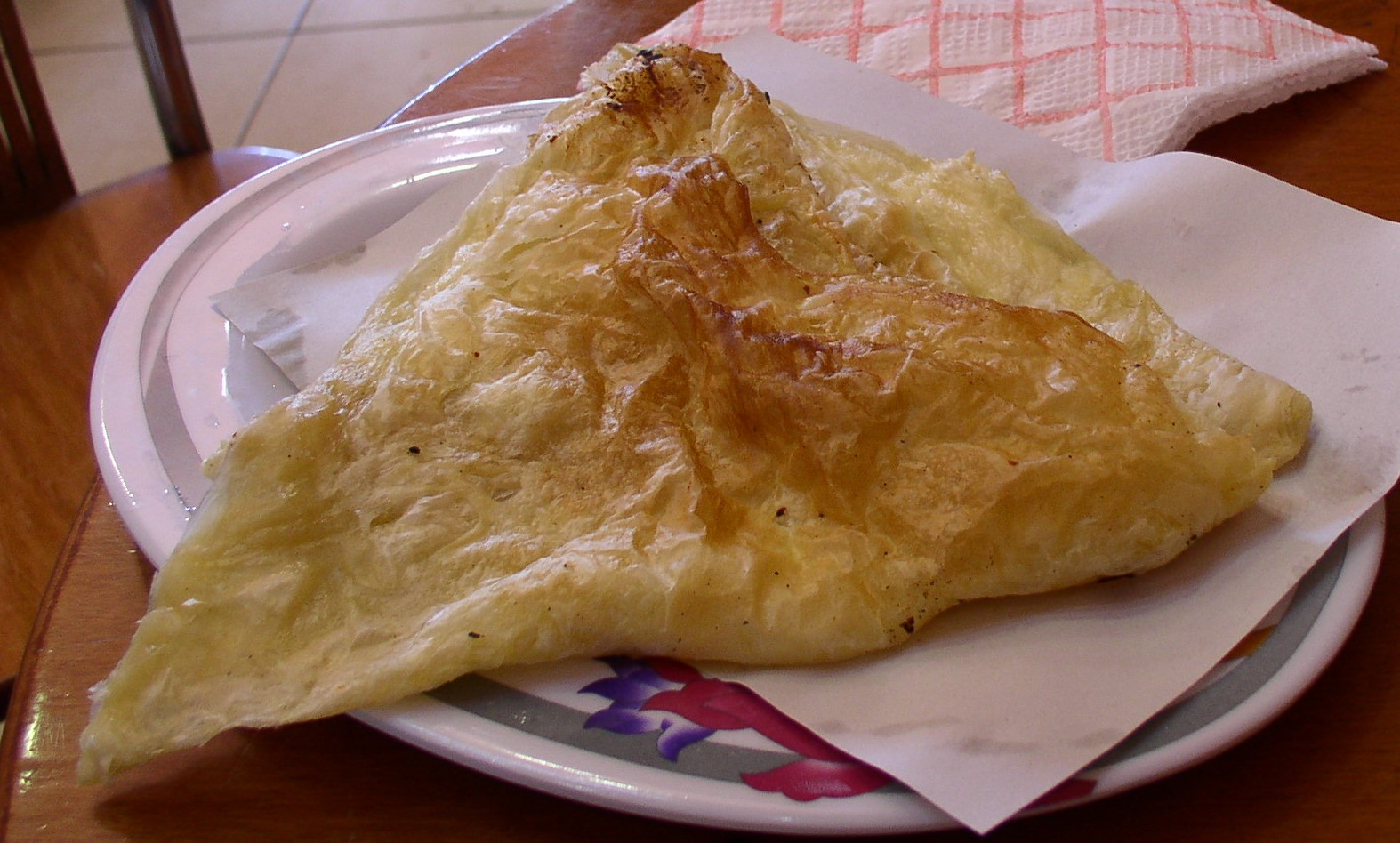 Byrek in Tirana, Albania